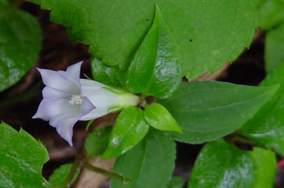 Tripterospermum japonicum, in Mount Chō, Azumino, Nagano prefecture, Japan.